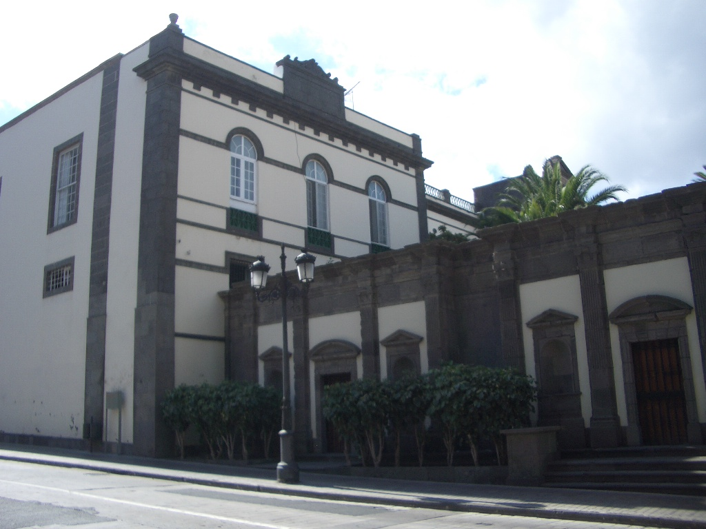 Choir of the Cathedral of Santa Ana. Las Palmas de Gran Canaria, Gran Canaria. Canary Islands (Spain)